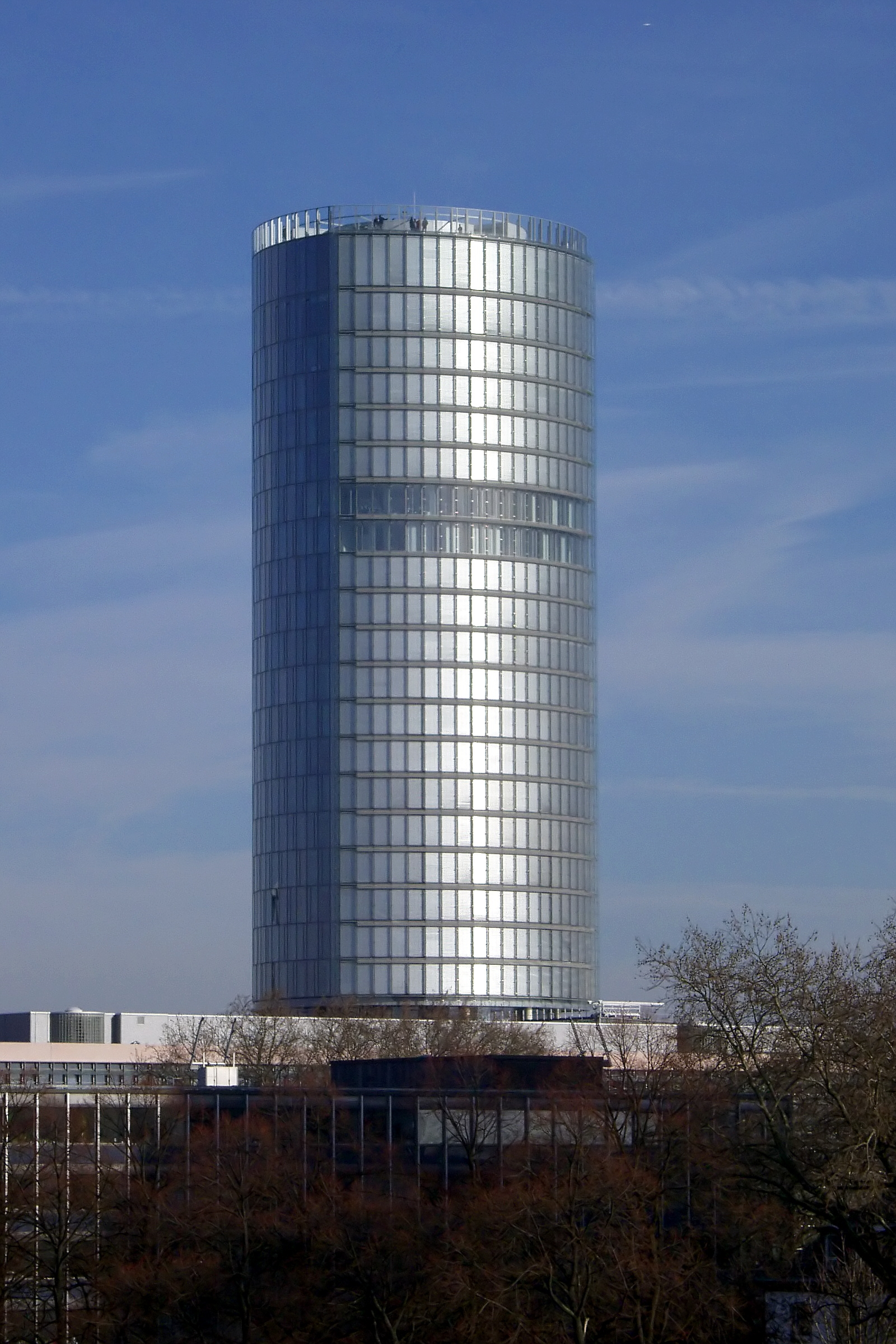 The head office of the European Aviation Safety Agency, KölnTriangle